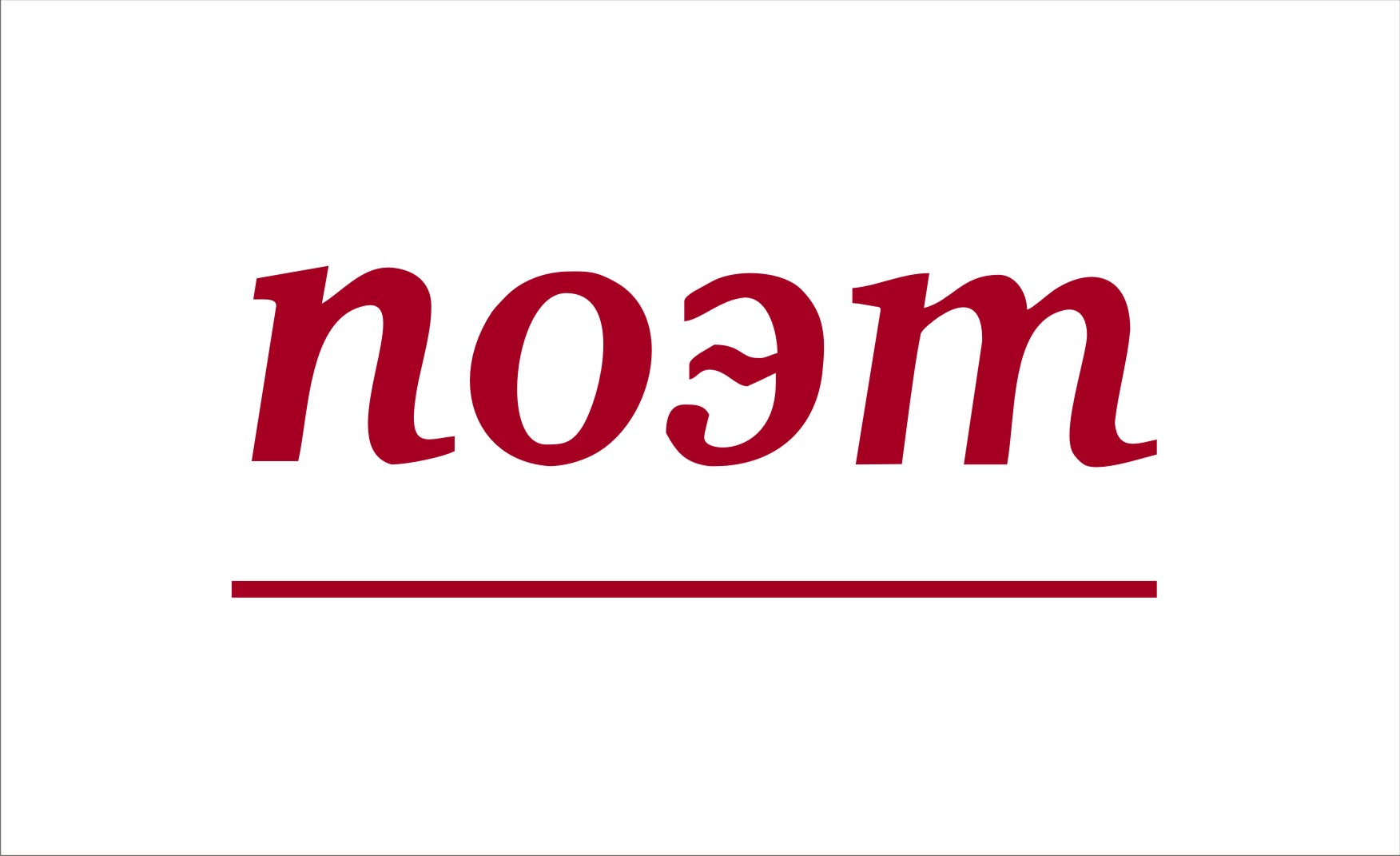 Poet Award Logo